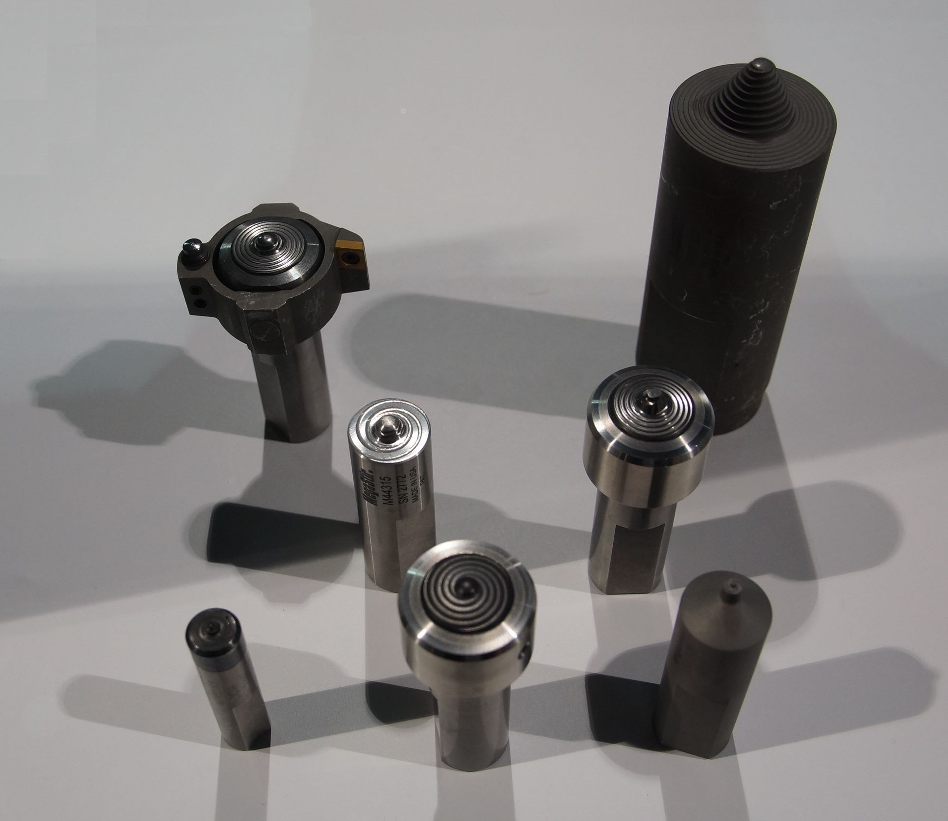 Advanced friction stir welding and processing tools by MegaStir exhibited at Fabtech Show held on November 11-13, 2014 Georgia World Congress Center, Atlanta, GA USA